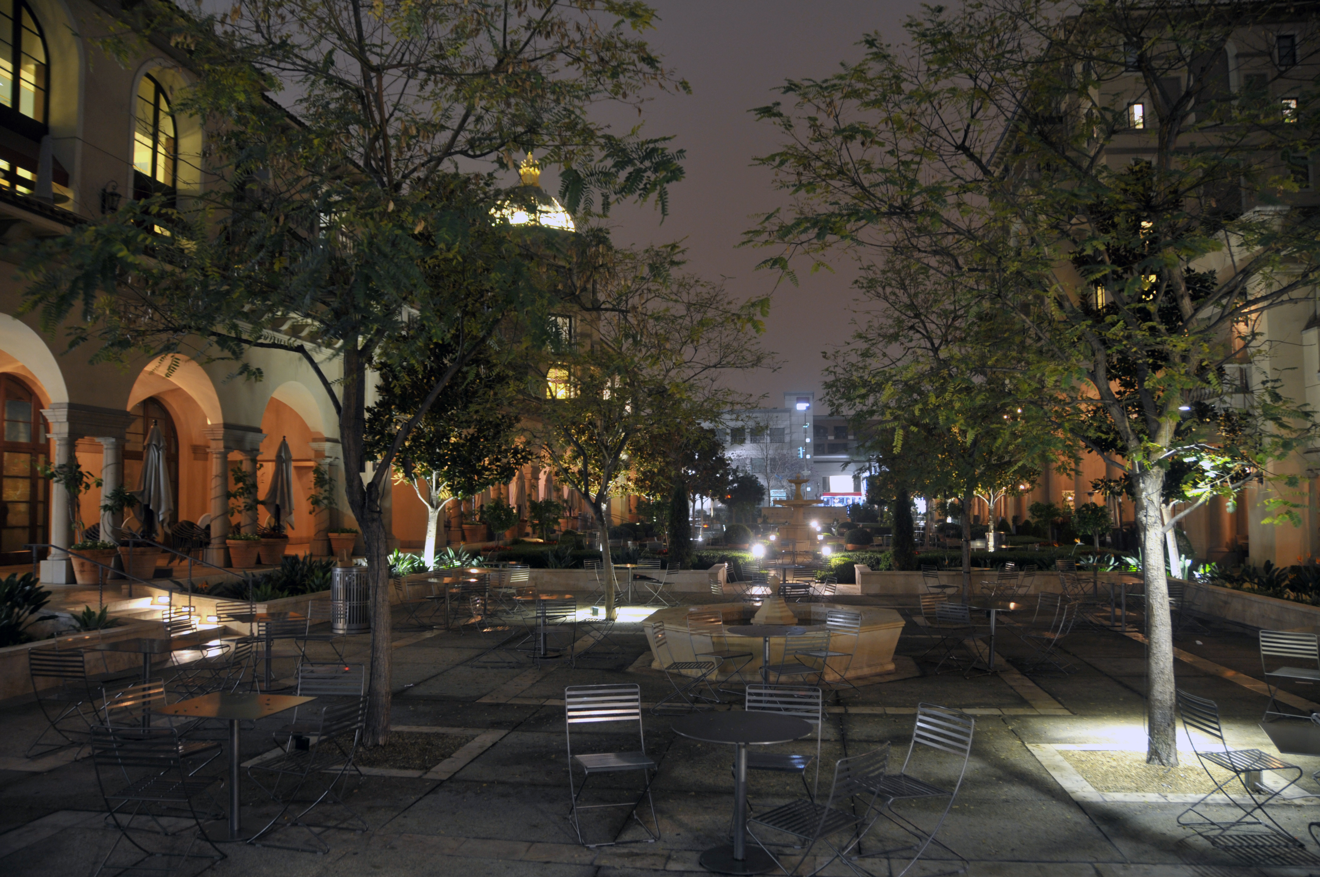 Beverly Canon Gardens Looking East, Beverly Hills, California - Photo by Glenn Francis of